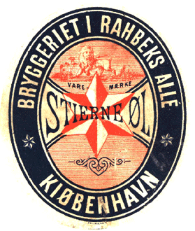 Label from a beer from Bryggeriet i Rahbeks Allé in Frederiksberg, Denmark